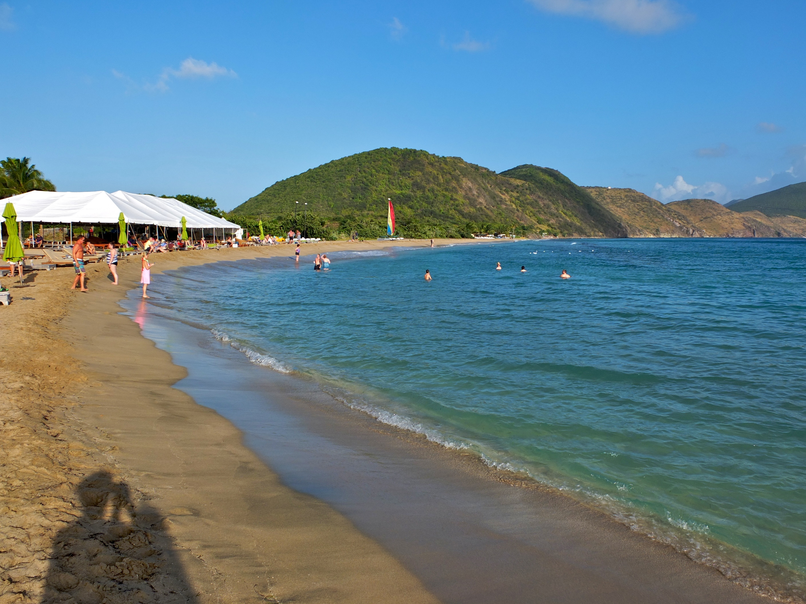 South Friar’s Bay, Saint Kitts.